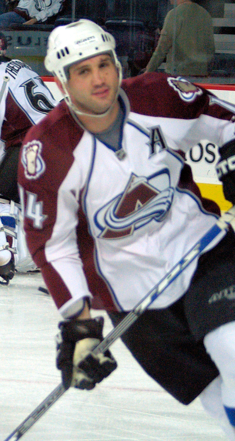 Ian Laperriere in the warmup before a game in Calgary, Alberta with Jose Theodore in the backgrounda.